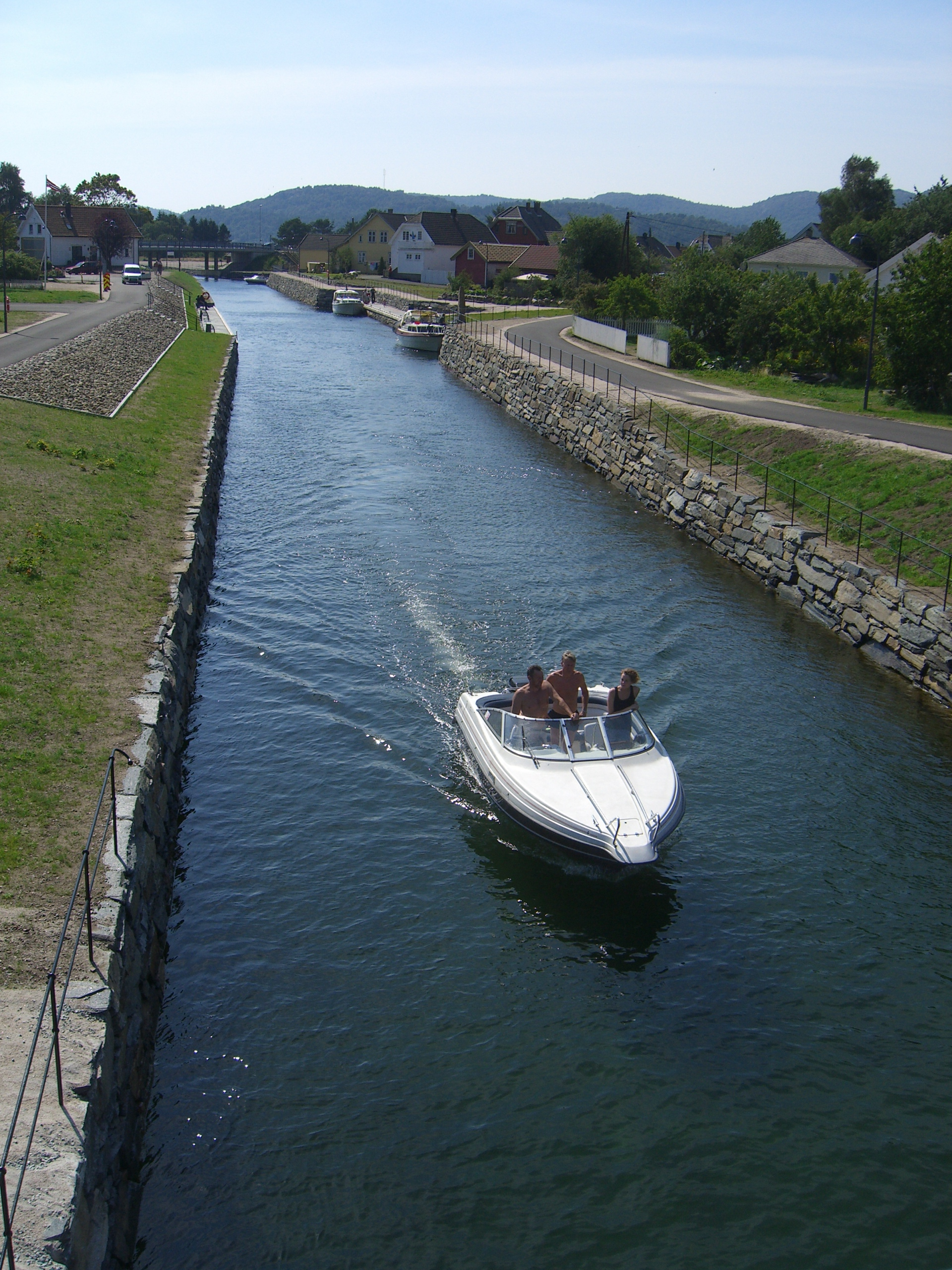 The canal from the ocean to the Lenefjord was opened in 2007, built close to where the canal was in the Viking age. It allows small boats to avoid crossing the feared waters around the Lindesnes peninsula.